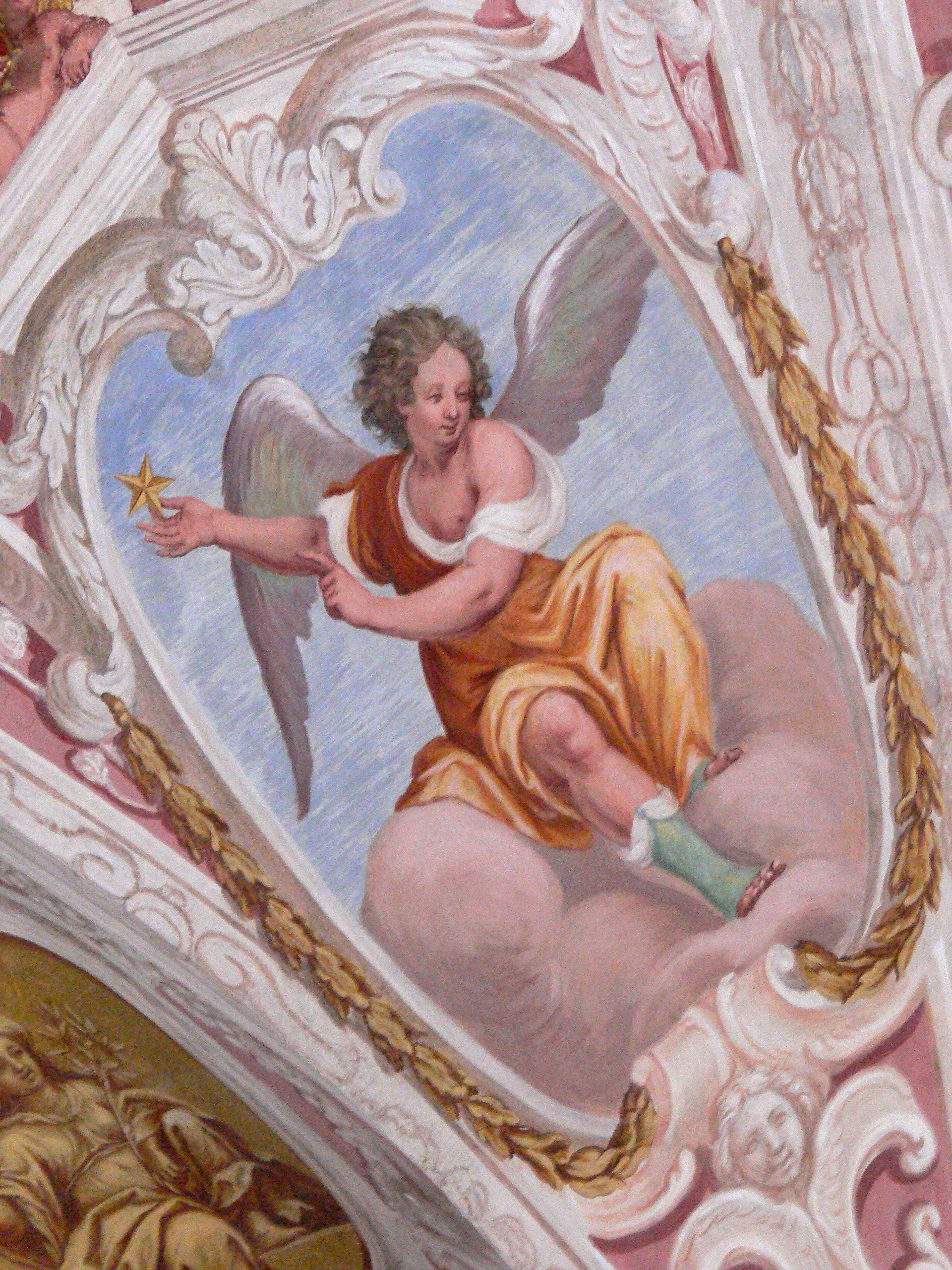 Pfarrkirchen i.M. Parish church: Fresco - Motive of the Lauretan Litany - Mary as the morning star